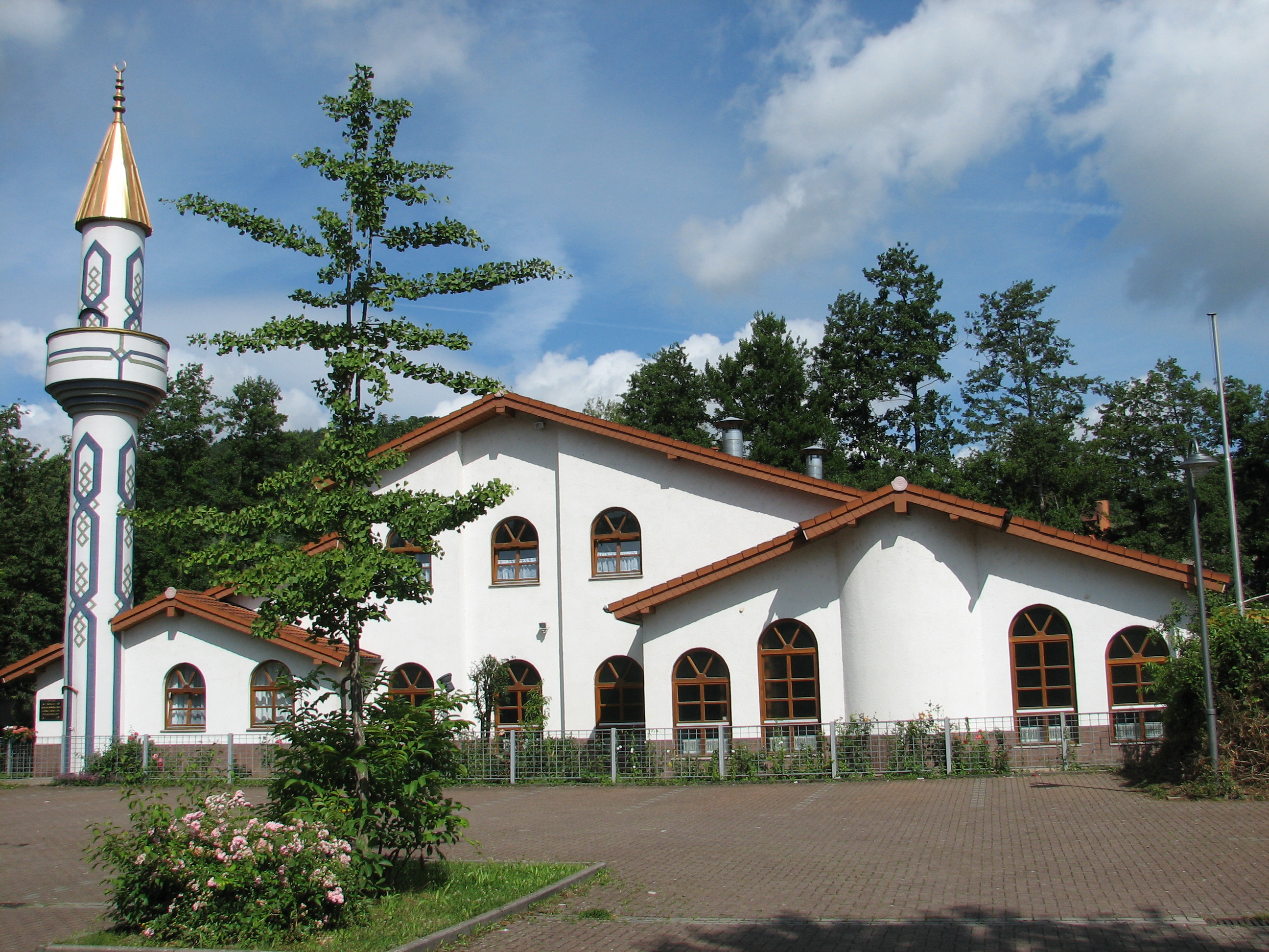 Mosque of Mosbach